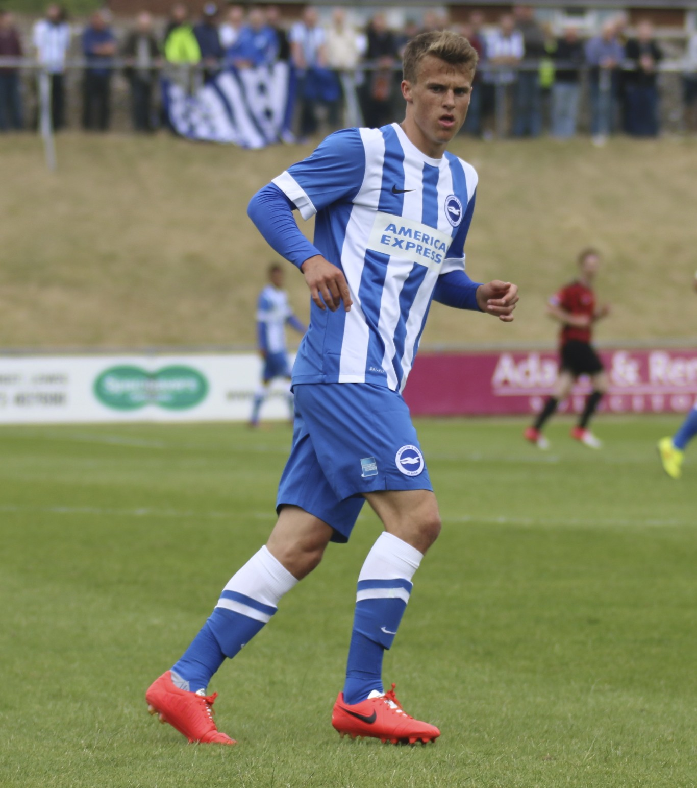 Solomon March playing in a pre-season friendly for Brighton and Hove Albion against Lewes